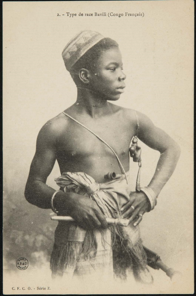 Between 1950 and 2011, acquired by Leonard A. Lauder, New York, from various postcard dealers in the United States, Canada and Europe; 2012, gift of Leonard A. Lauder to the MFA. (Accession Date: April 25, 2012) Credit Line Leonard A. Lauder Postcard Archive—Gift of Leonard A. Lauder Poscard - Front: C.R.C.O. - Série Z Back: divided. Mint